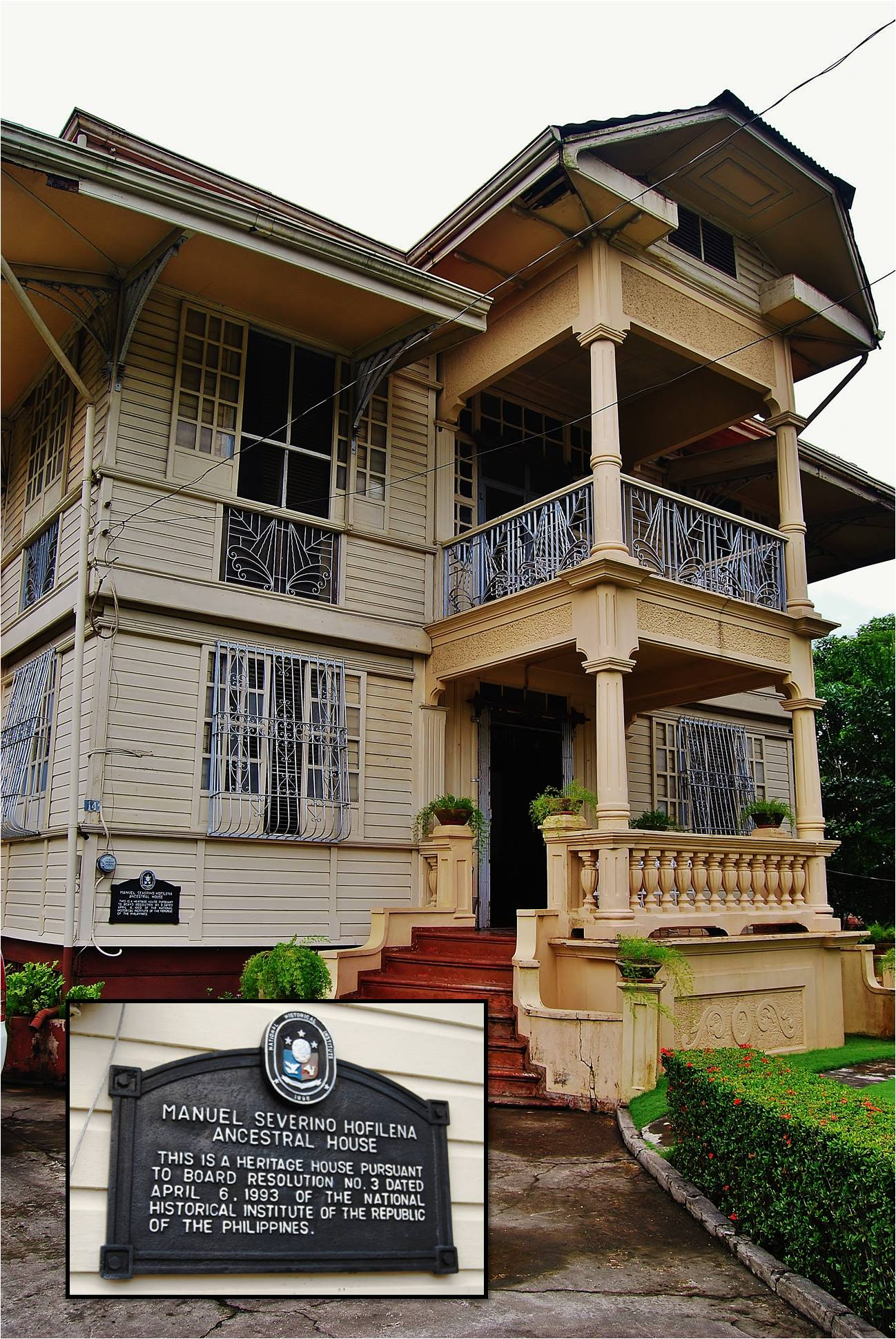 Located along the Cinco de Noviembre Street, the Hofileña Ancestral House contains several artifacts and artworks from novice to prominent artists. One can see early sketches of Jose Rizal, paintings by Juan Luan and Felix Resurreccion Hidalgo, and even wood carvings such as a chopping board by national artist, Napoleon Abueva. It also houses interesting and rare toy collections by Mr. Ramon Hofileña that includes miniature dolls which are smaller than a pencil eraser.